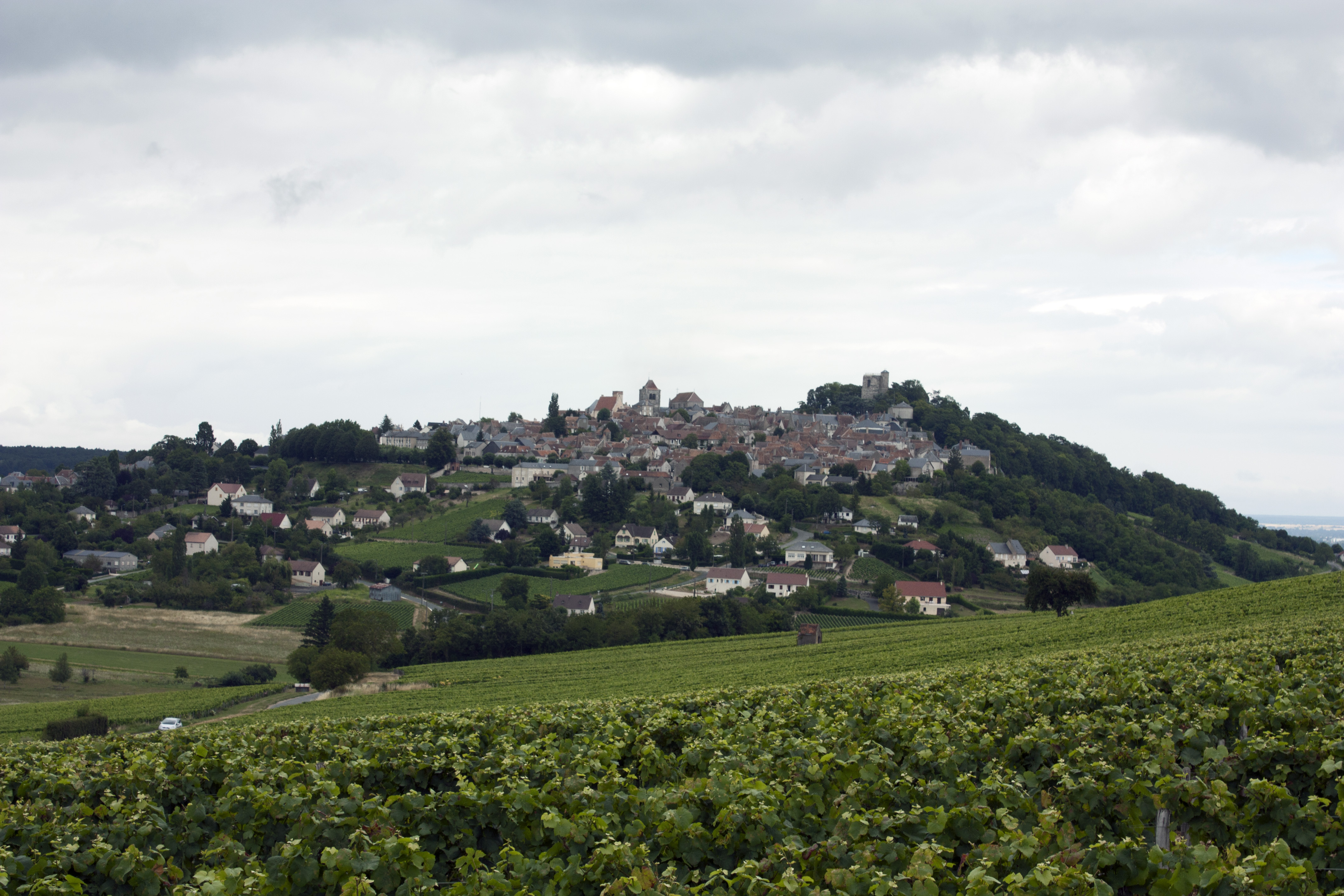 Vineyards of Sancerre. At the back the city on his hill.